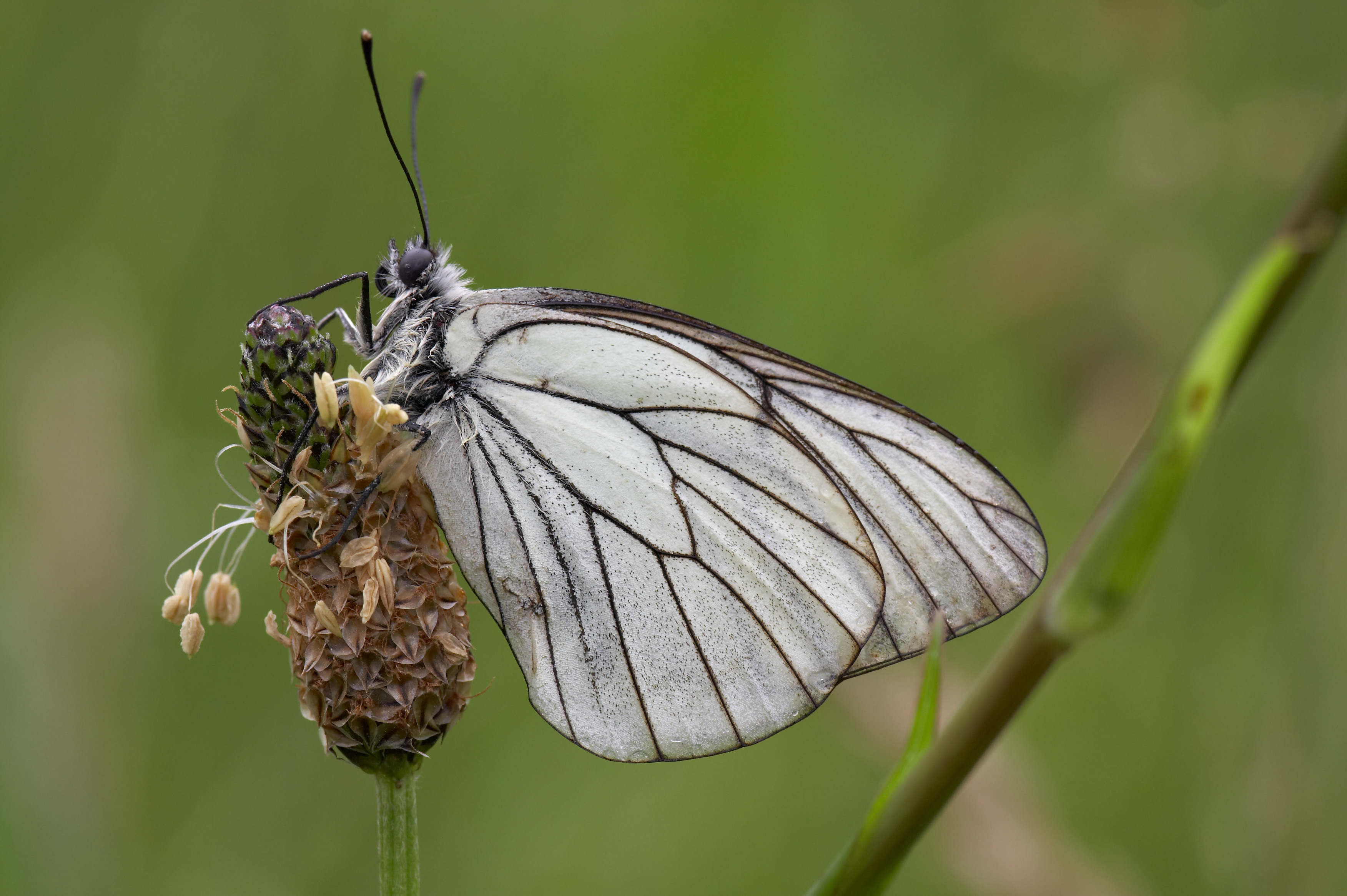 Aporia crataegi (Black-veined White) on Plantago lanceolata (Ribwort Plantain)